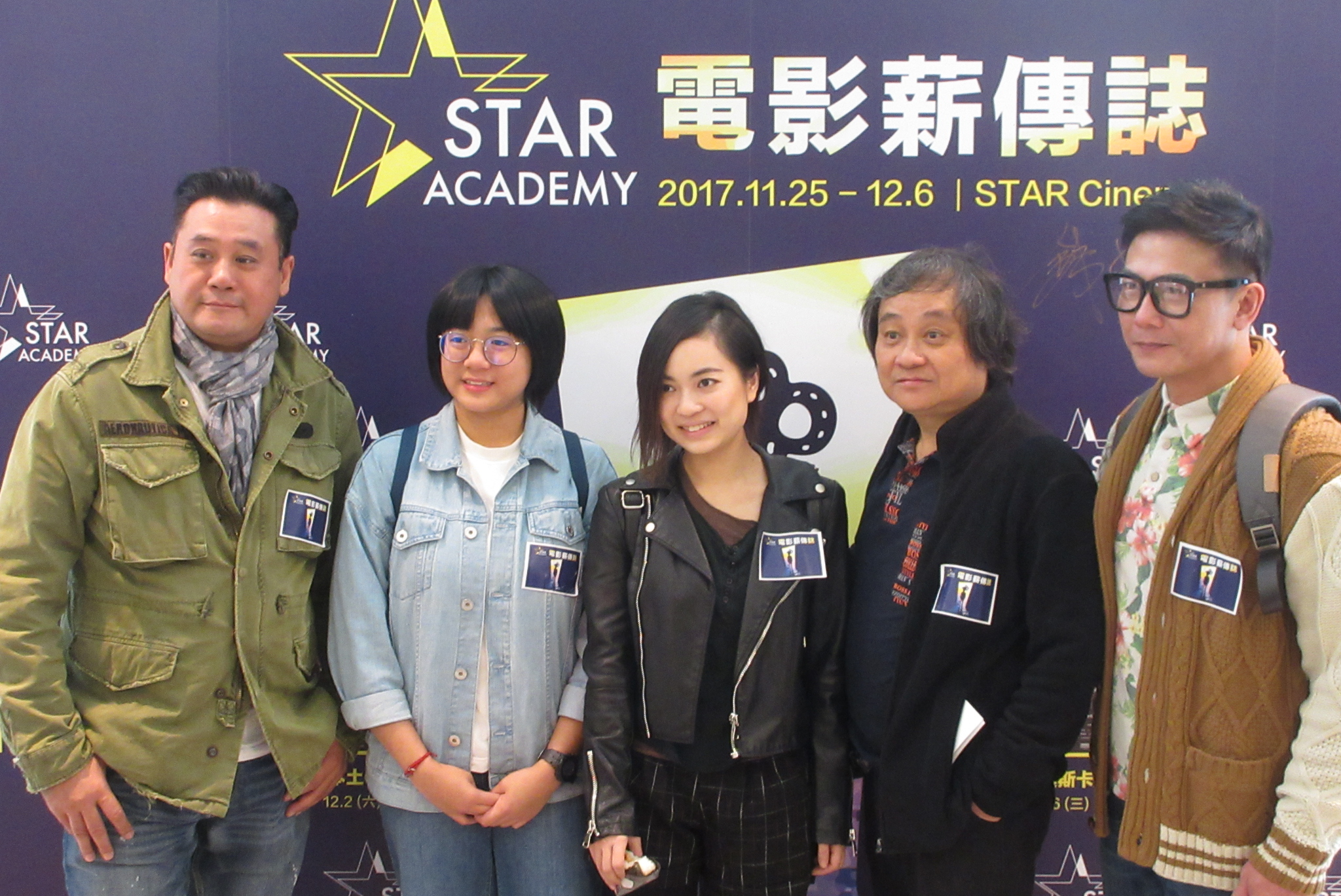 HK TKO PopCorn MCL Star Cinema Film Makers Nov 2017 IX1 麥長青 Evergreen Mak 章國明 Alex Cheung 錢小豪 Chin Siu Ho